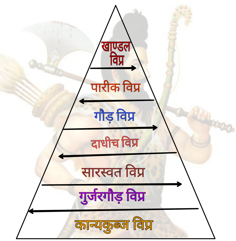 brahmins casts chart on the basis of cast classification of Brahmins.